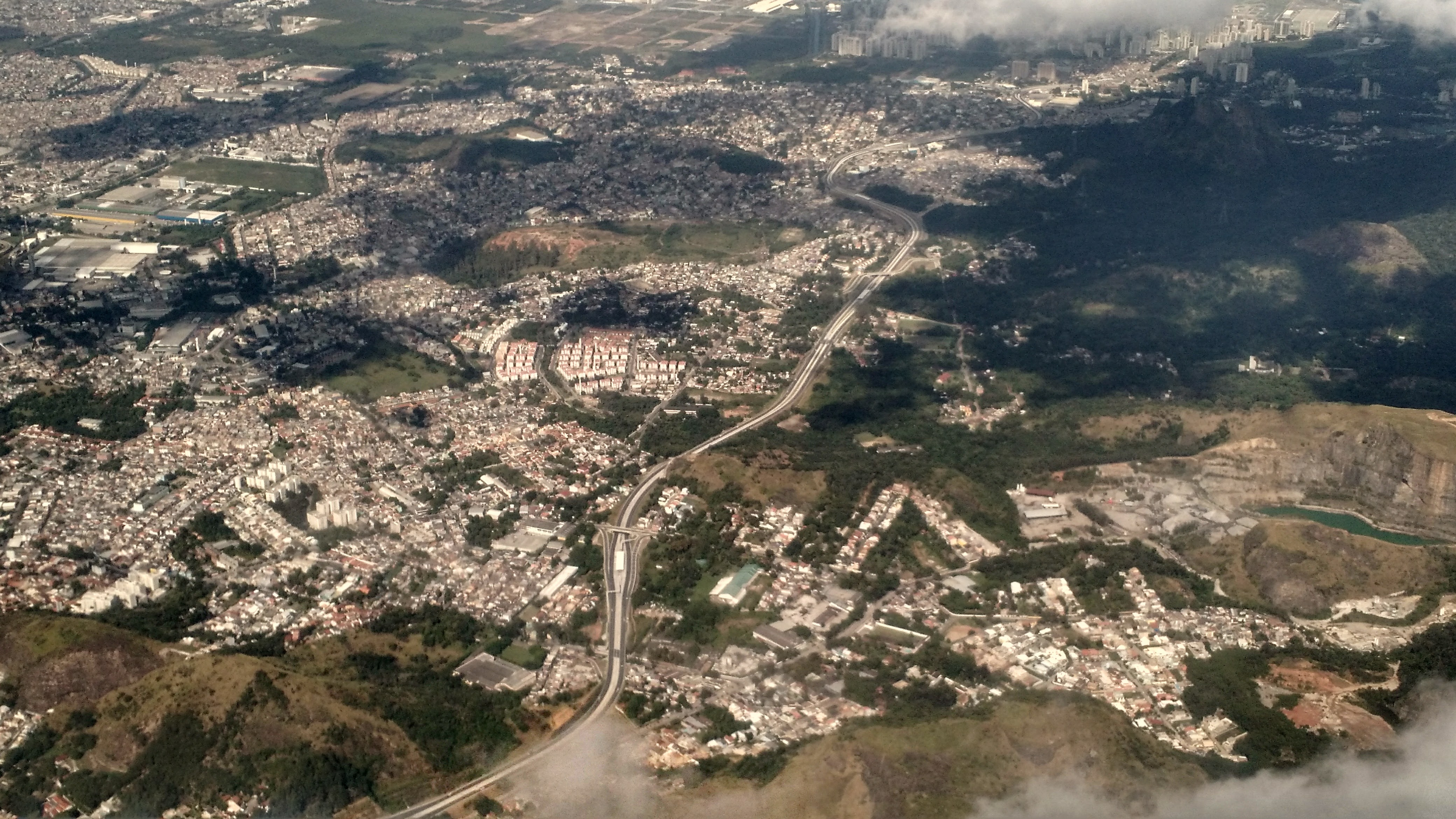 TransOlímpica expressway in Rio de Janeiro, Brazil, seen from above